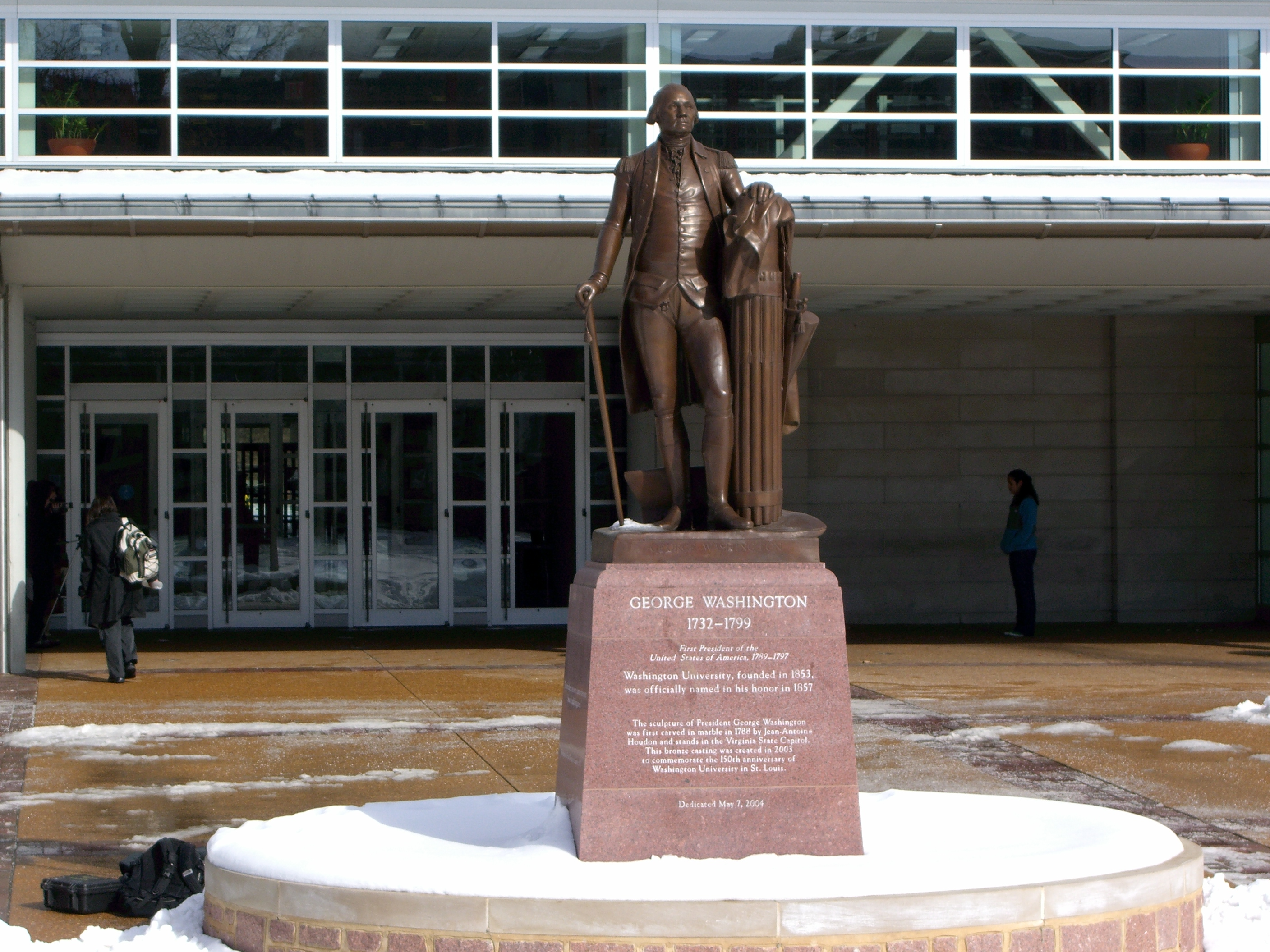 George Washington statue in front of Olin Library at Washington University in St. Louis